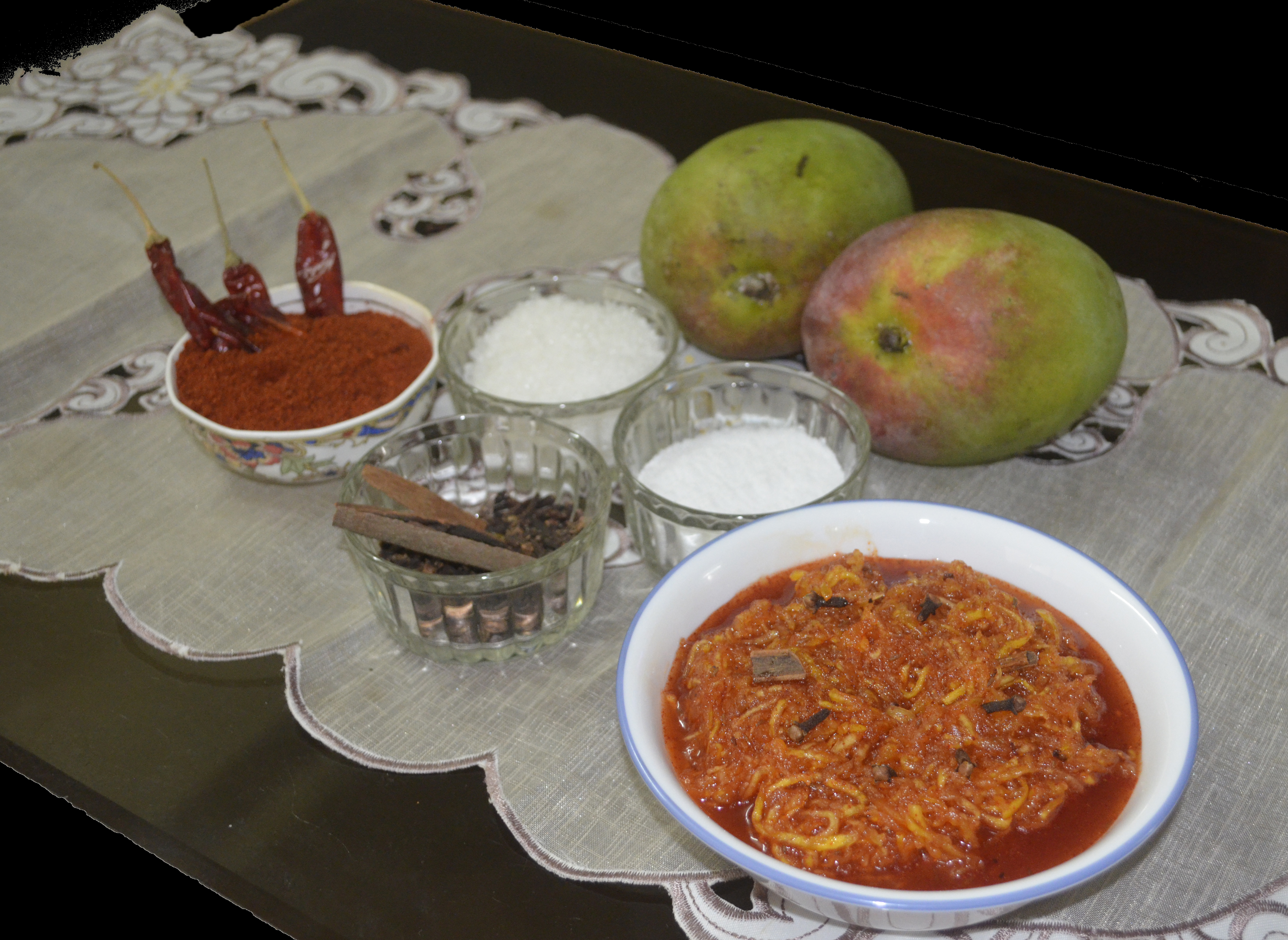 Yummy... traditional kathiyawadi gujarati chhundo, sweet mango pickle.You can eat Chhundo with items like roti, thepla, sabjis, gota, handvo, dokla etc. In Gujarat, Chhundo and Thepla (spicy roti) are very famous. Gujaraties are incomplete without Chhundo and Thepla, so next time if you meet any Gujarati or happen to put your feet in this amazing land make sure you en-light your self with Chhundo and Thepla.